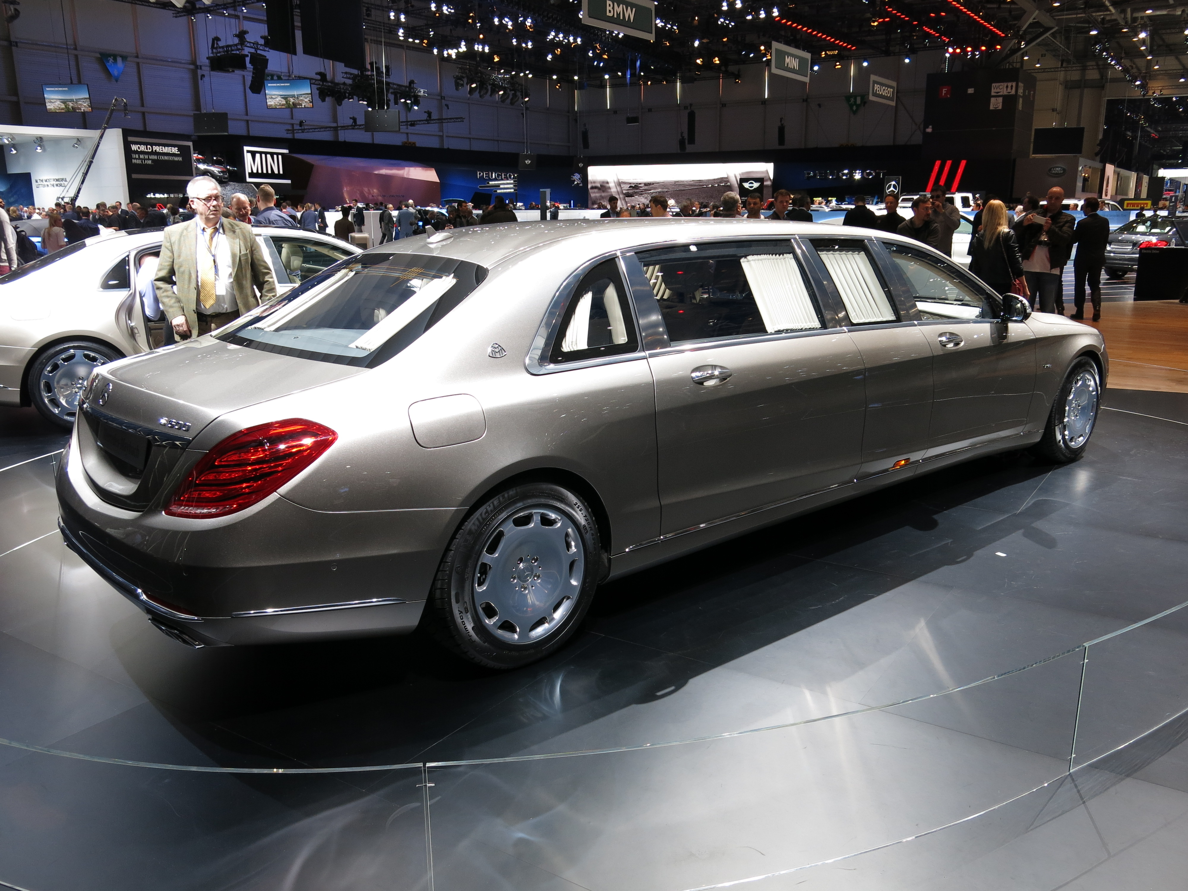 Geneva Motor Show 2015 (photo taken on the first press day)